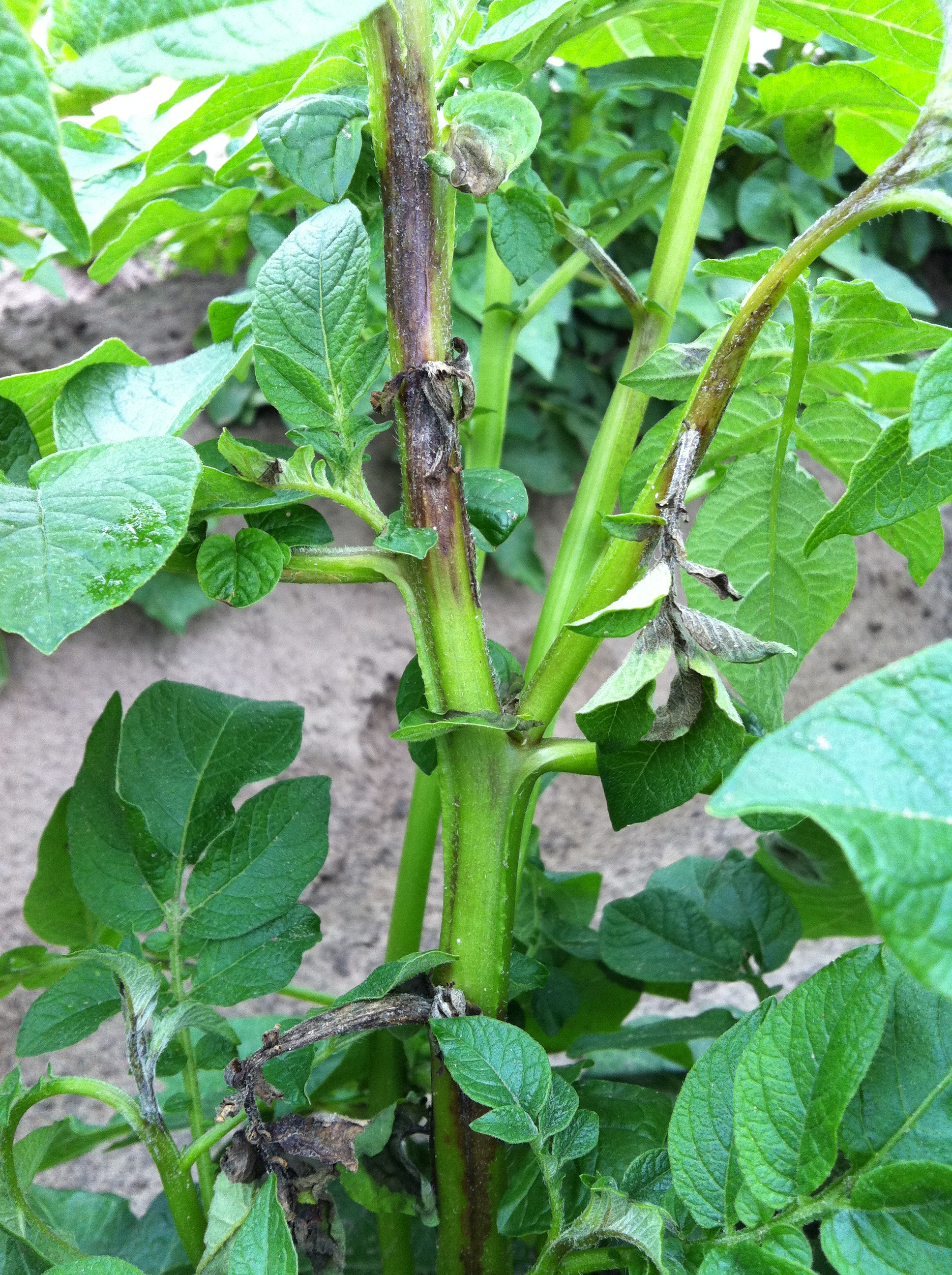 Stem attack on potato by Phytophthora infestans